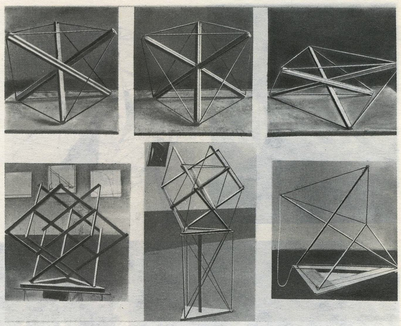 Kārlis Johansons is also known as: Kārlis Johansons (Latvian), birth Карл Вольдемарович Иогансон or Karl Voldemarovich Ioganson (Russian), partial residence Karlis Johansons or Karl Johannson (English) Karl Ioganson (German) Karel Ioganson (Greek) sometimes translated by hand or bot as Iogansons, Johanson, Johannson, Johanssons, Johannsons, Johanssons, Johnsons, or Carl Original